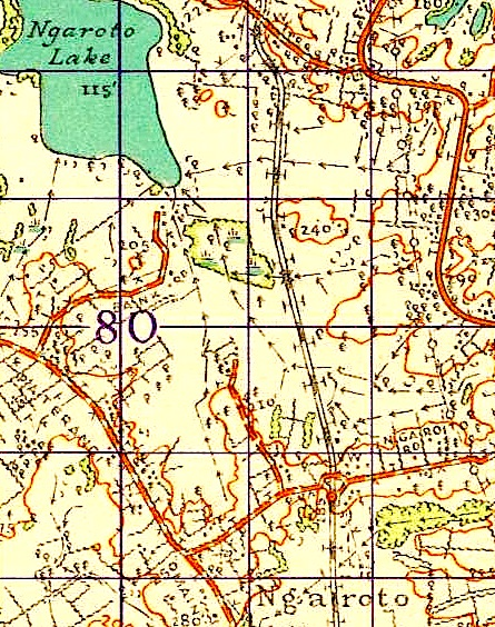 1946 map (Source- Land Information New Zealand (LINZ) and licensed by LINZ for re-use under the Creative Commons Attribution 3.0 New Zealand licence)